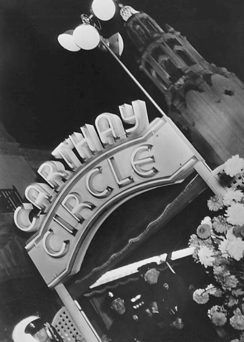 Neon sign of the Carthay Circle Theater in Los Angeles at the premiere of High, Wide and Handsome.